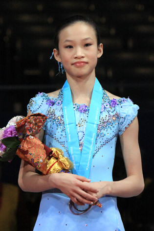 Christina Gao(bronze) at the 2009-2010 Junior Grand Prix Final.